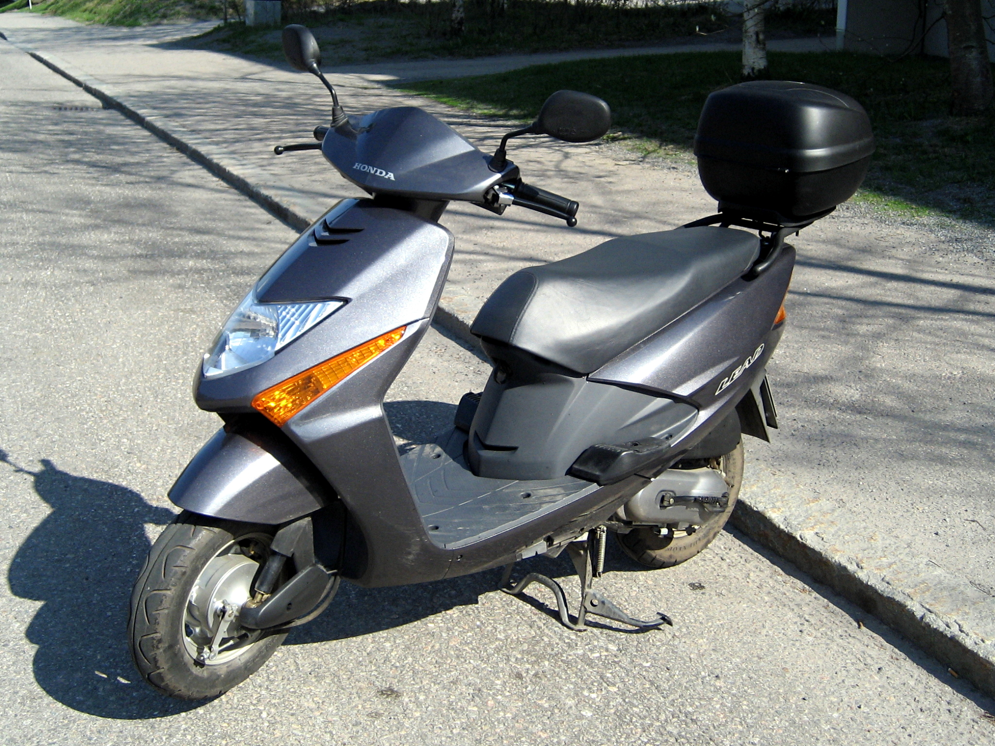 Honda's SCV 100 Lead scooter, made in India, is a four stroke, 102cc commuter. This scooter is a 2007 model.